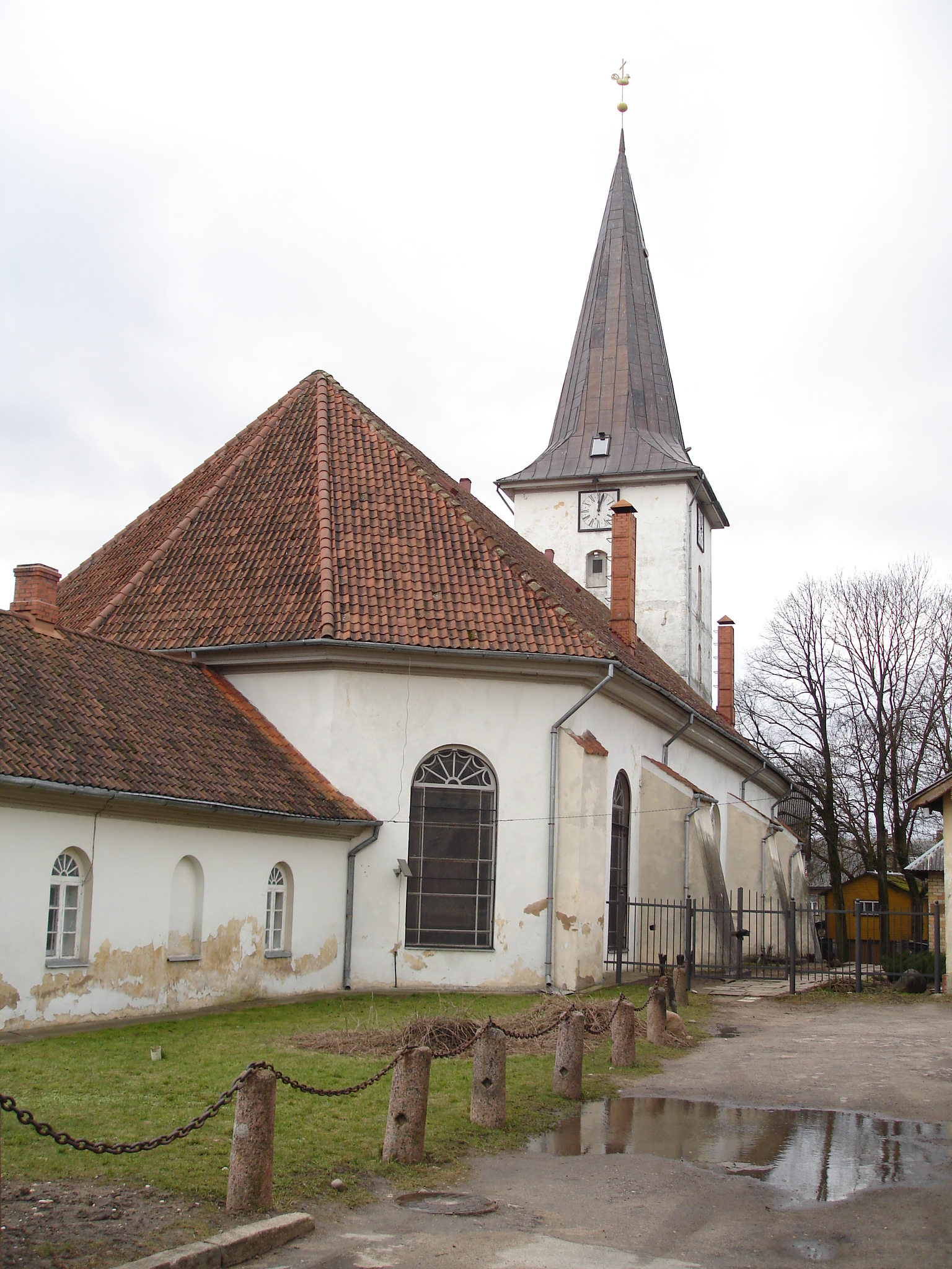 Tukums church. Latvia.